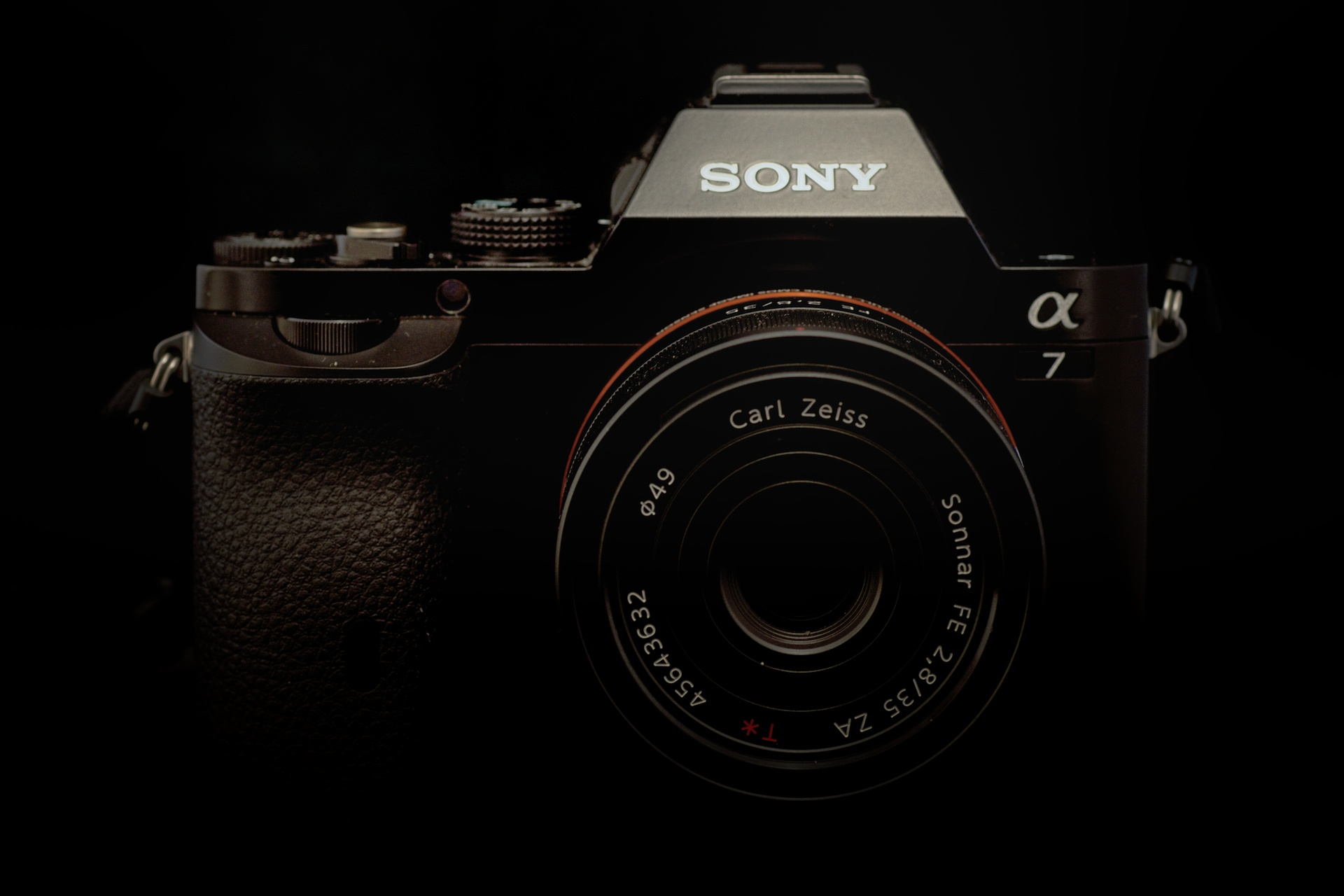 Sony 35mm F2.8 ZA on Sony A7.